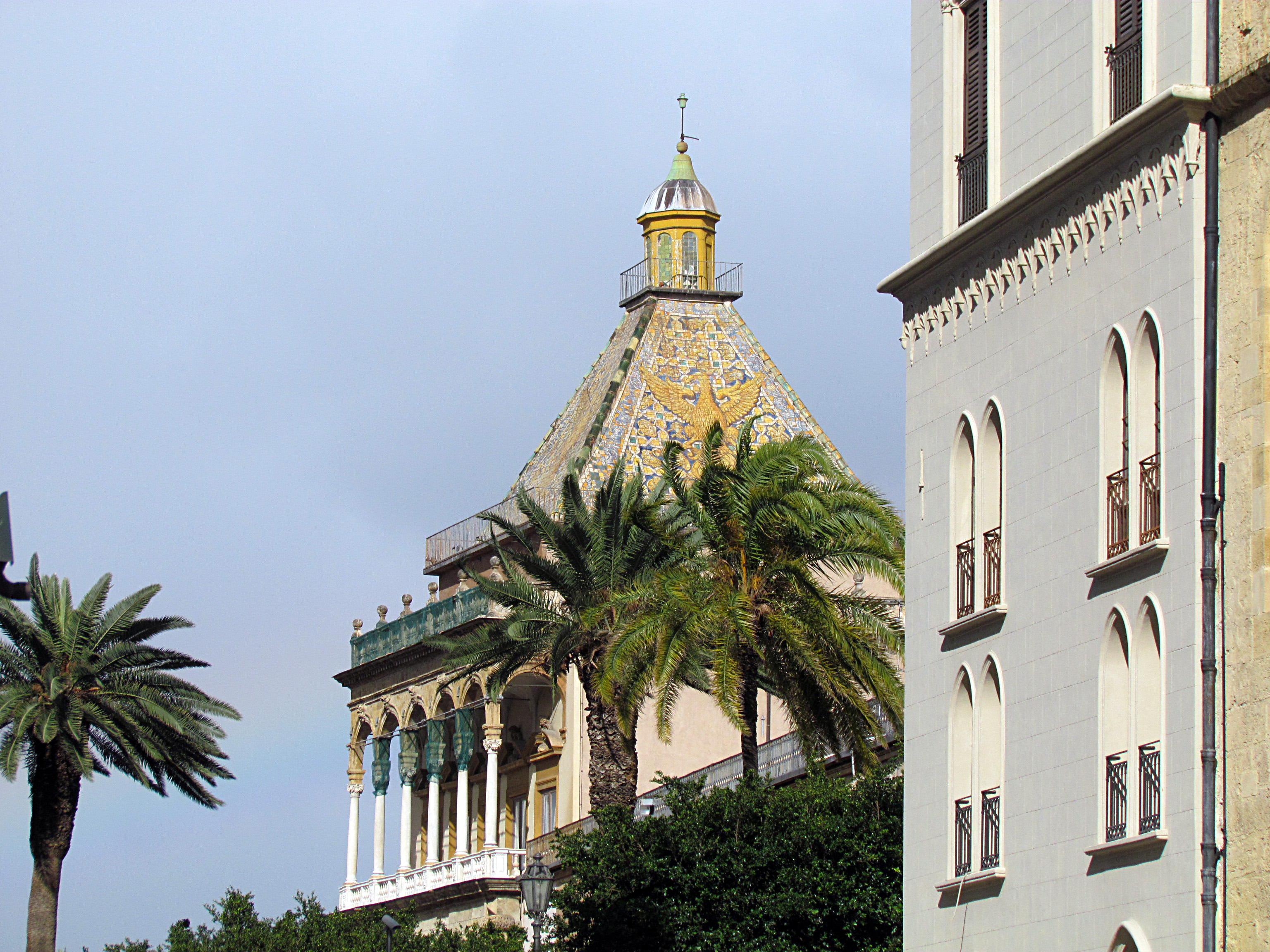 Palazzo dei normanni, part of west facade and the New gate (photo: Mihailo Grbic)